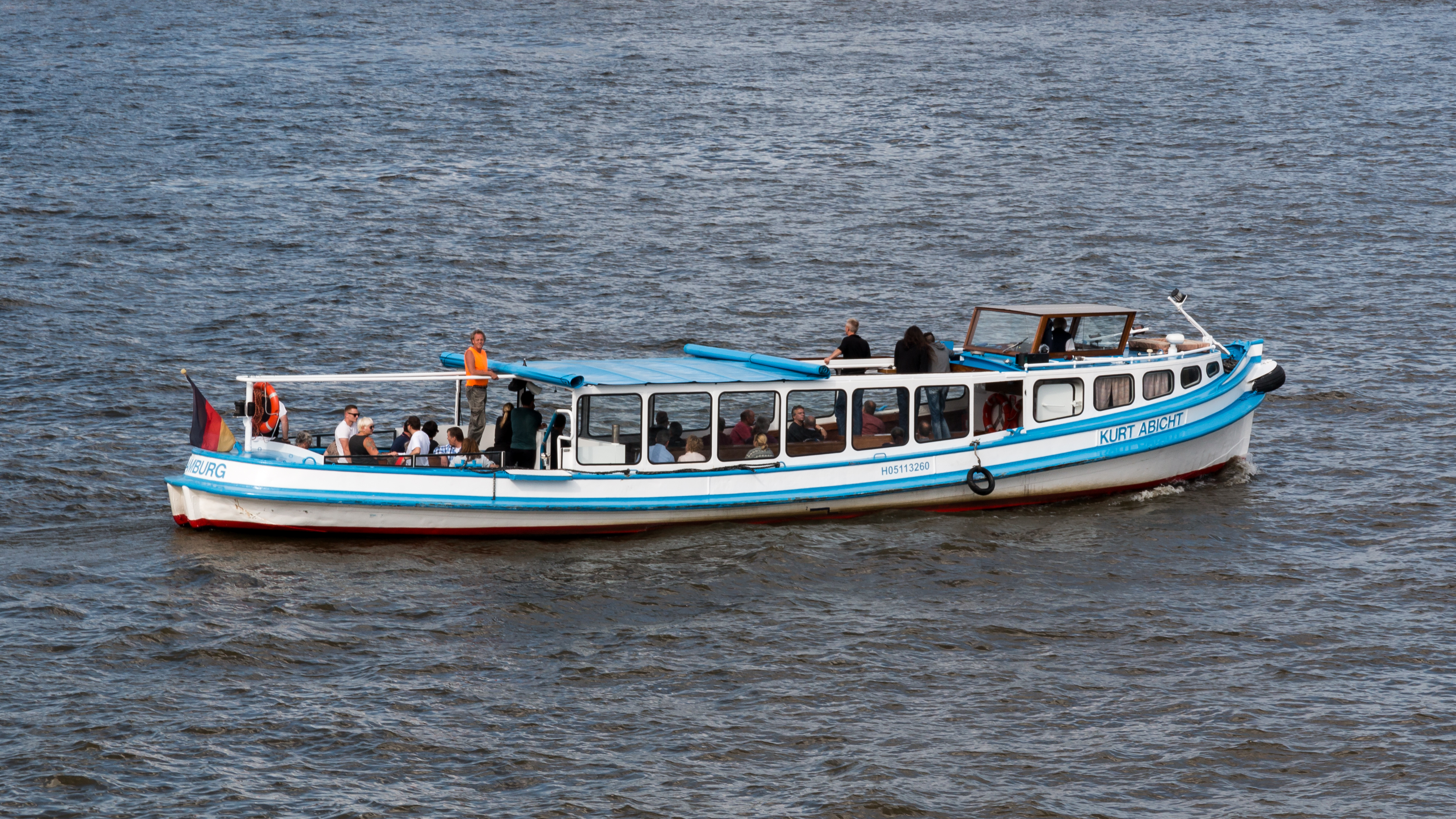 Launch boat “Kurt Abicht”, Hamburg, Germany